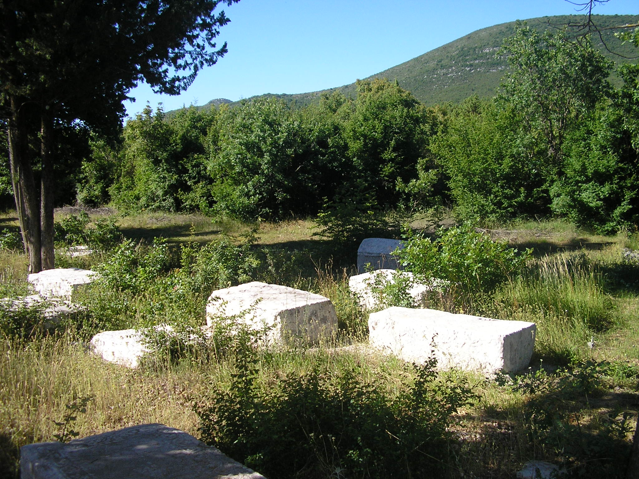 Bijača necropolis